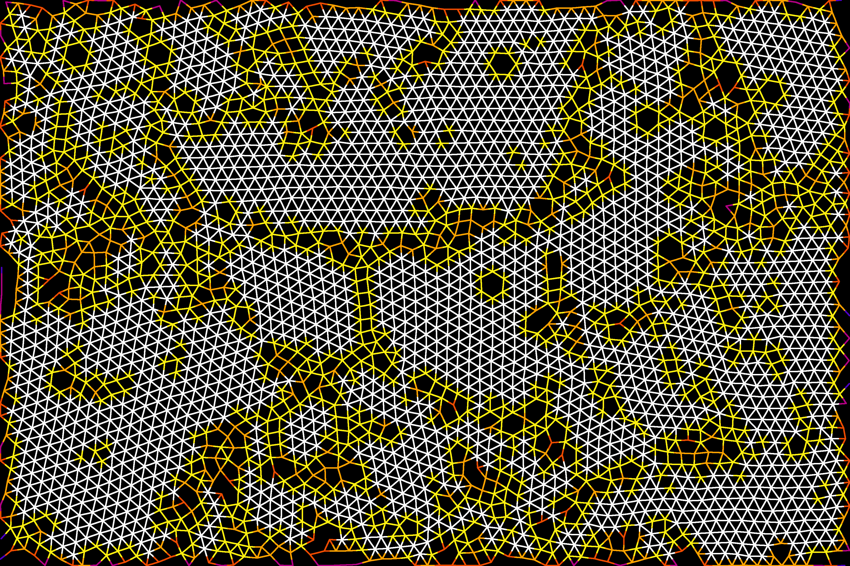 The connectivity of particles within the crystaline domains of a 2D solid-in-liquid colloid. White indicates a particles 6 neighbour connections as found in crystaline domains. Other darker colours indicate more or less neighbours in amorphous domains.